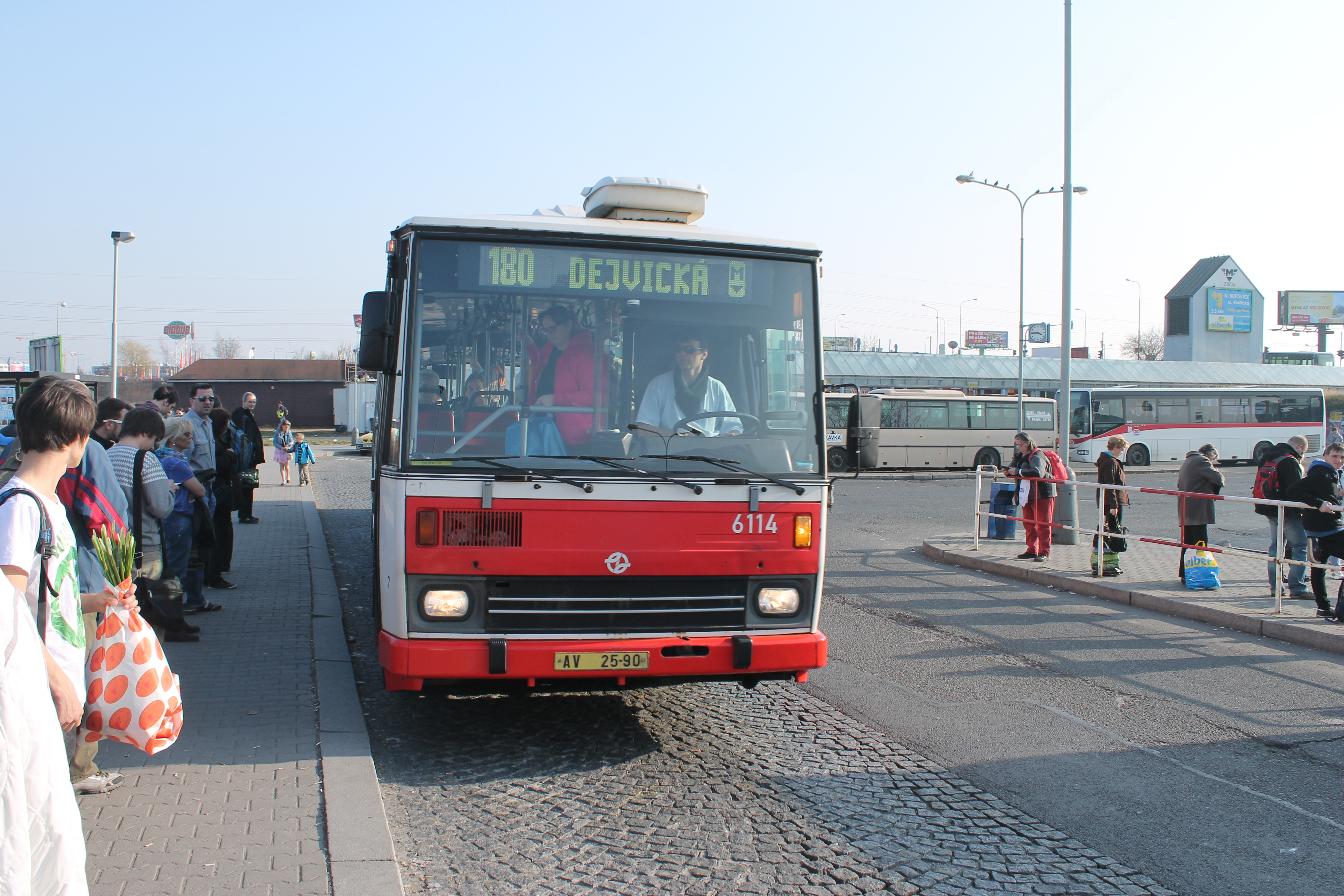 Bus Karosa B 741, number 6114, line 180, Zličín stop, Prague